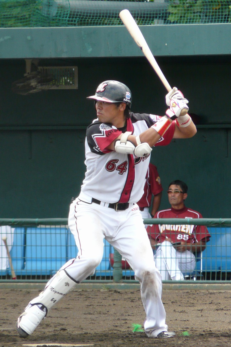 Hiroshi-Miyamoto